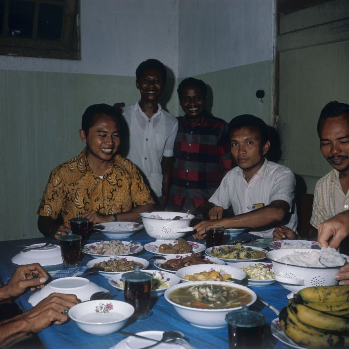 'Padang food'